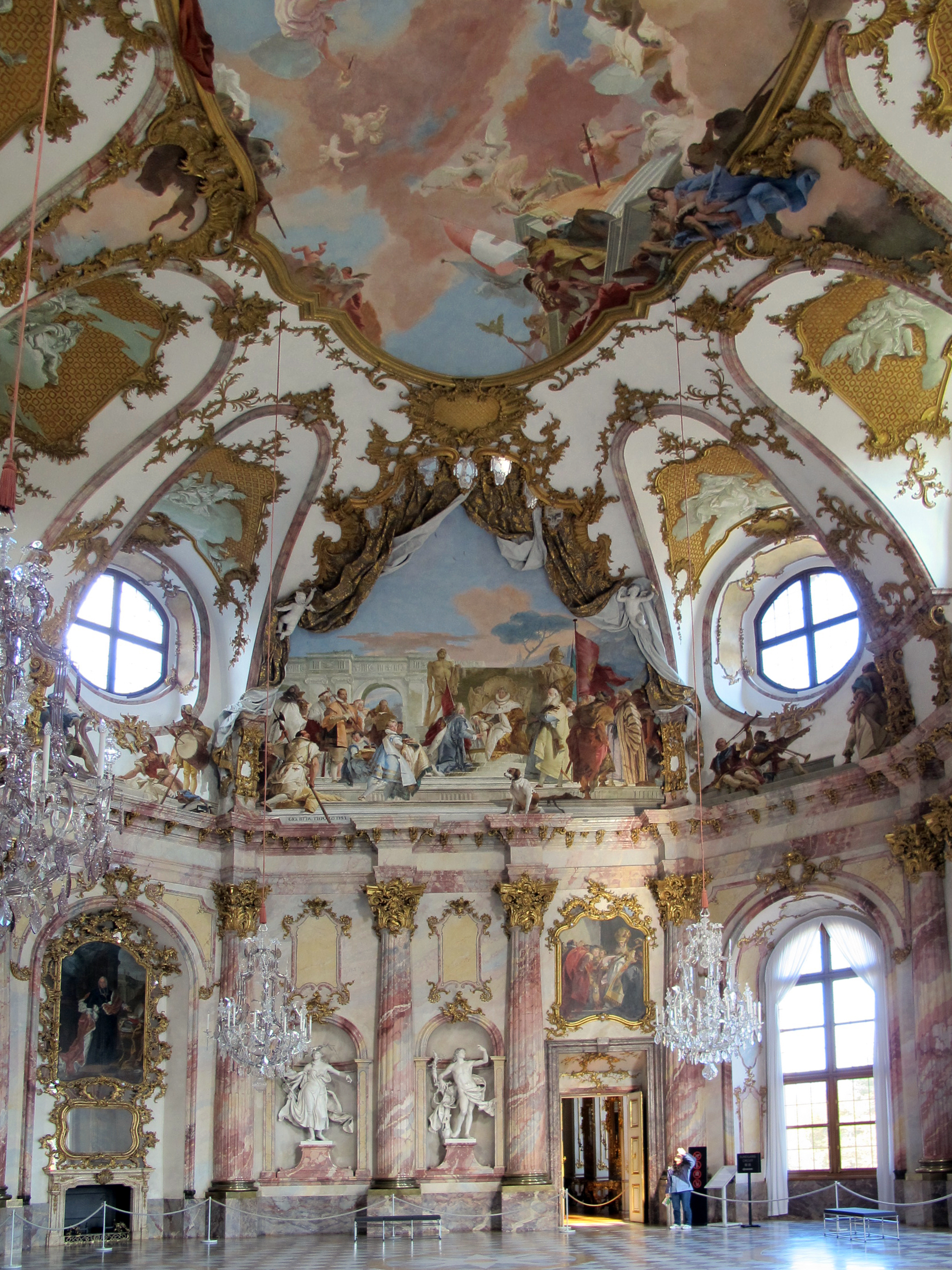 Interiors of Residence Würzburg